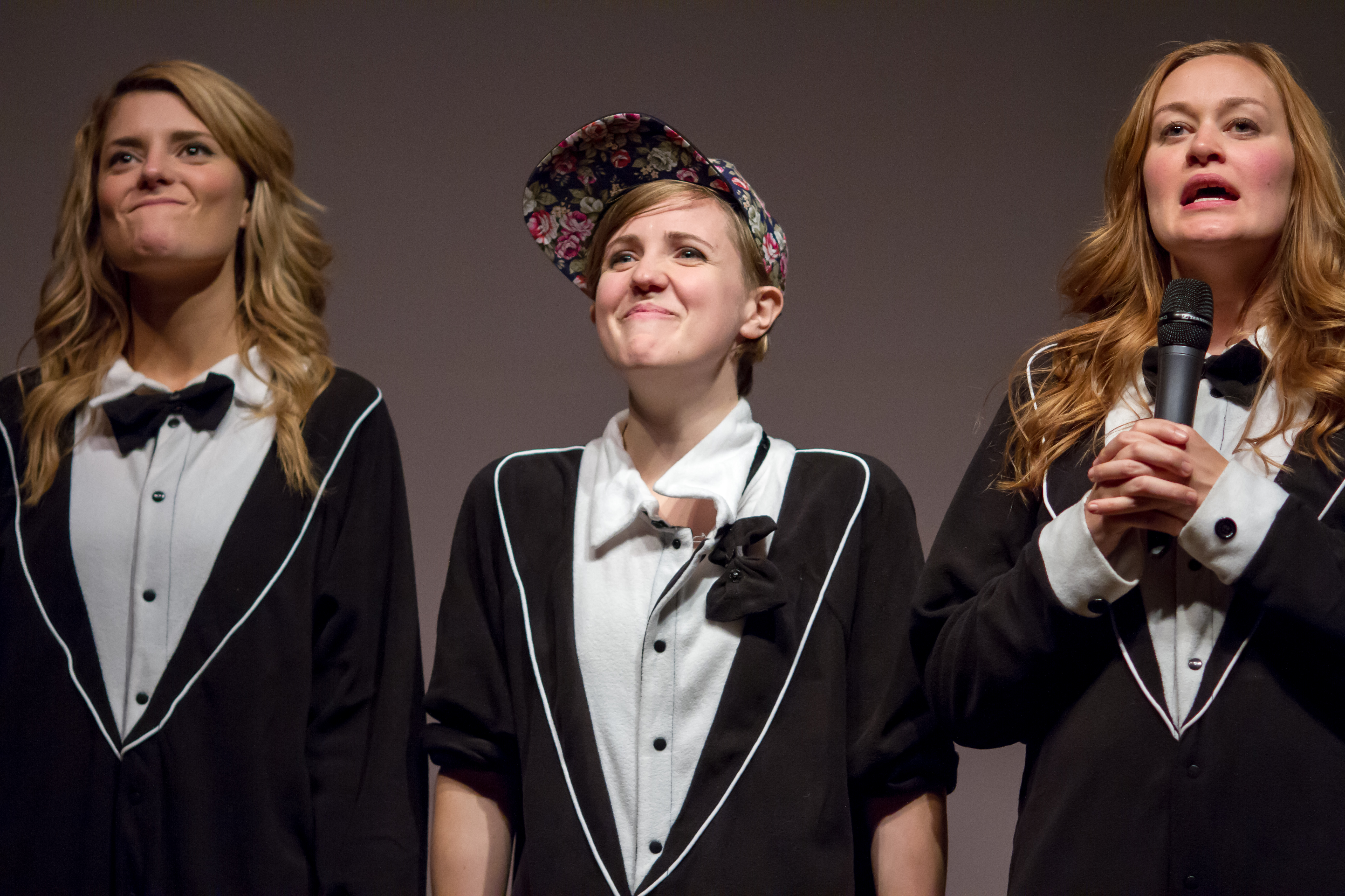 Grace Helbig, Hannah Hart, and Mamrie Hart onstage at No Filter in Portland, Oregon, in December 2013. Grace and Hannah are trying to keep from laughing at Mamrie's comedy.